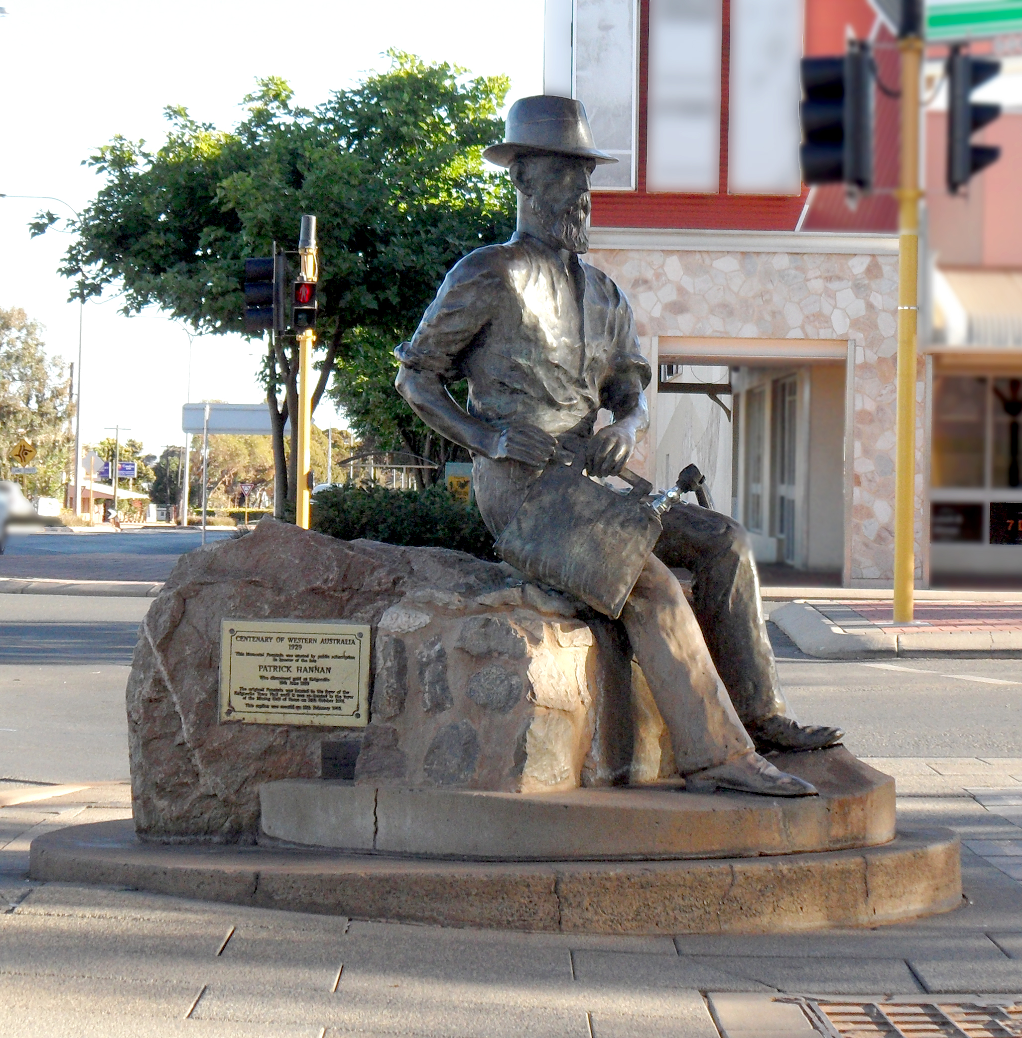 1929 bronze statue of Paddy Hannan in the main street of Kalgoorlie, Western Australia. The statue is also a fountain, to recall how the lack of water plagued prospectors in Hannan's time.